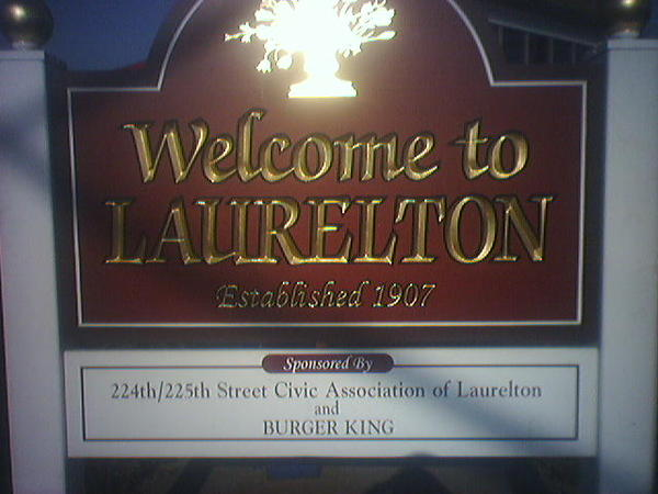 A photo I took of the Laurelton sign in Queens, New York City, New York.